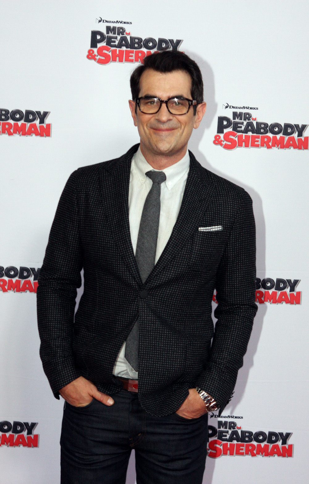 Mr Peabody and Sherman Premiere, Hoys Entertainment Quarter, Moore Park Sydney Australia